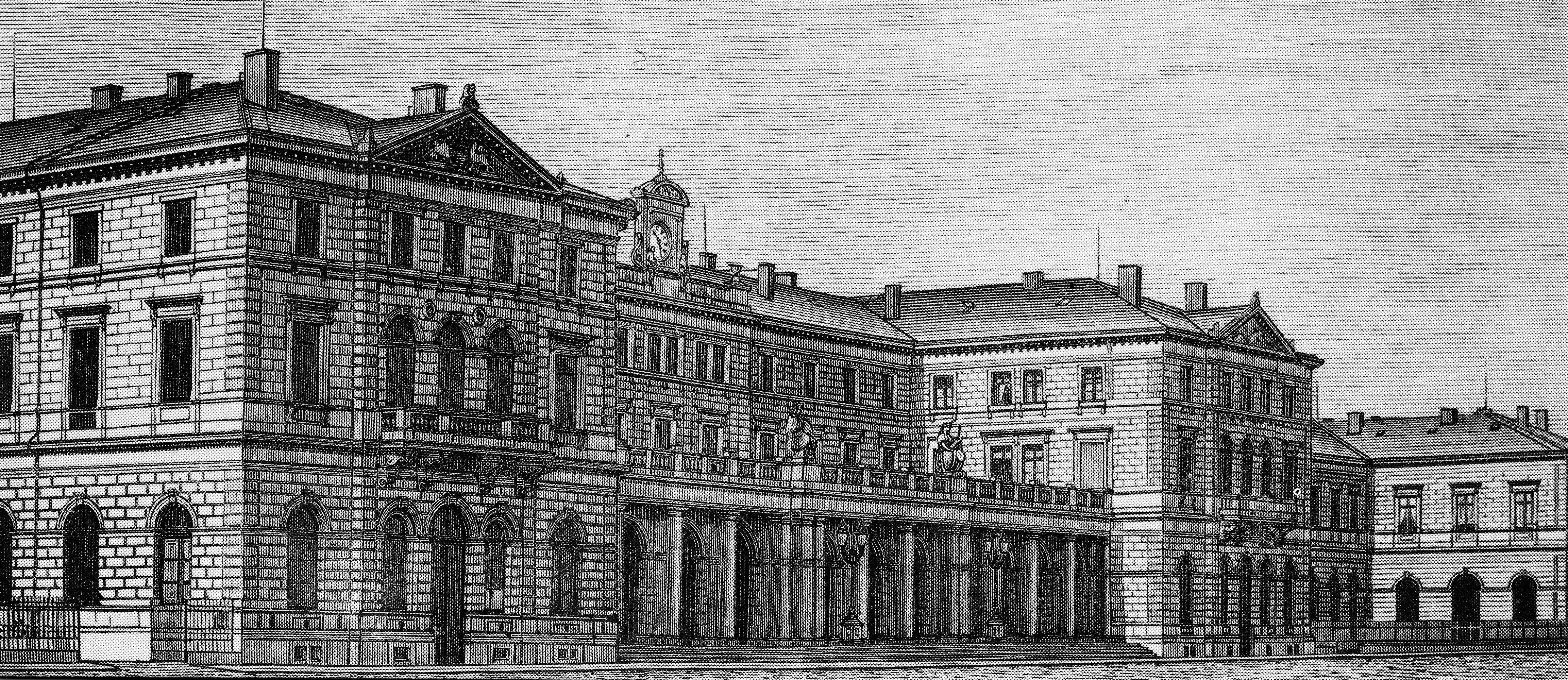 Station Building of Bohemian Station in Dresden (built 1861-1864)